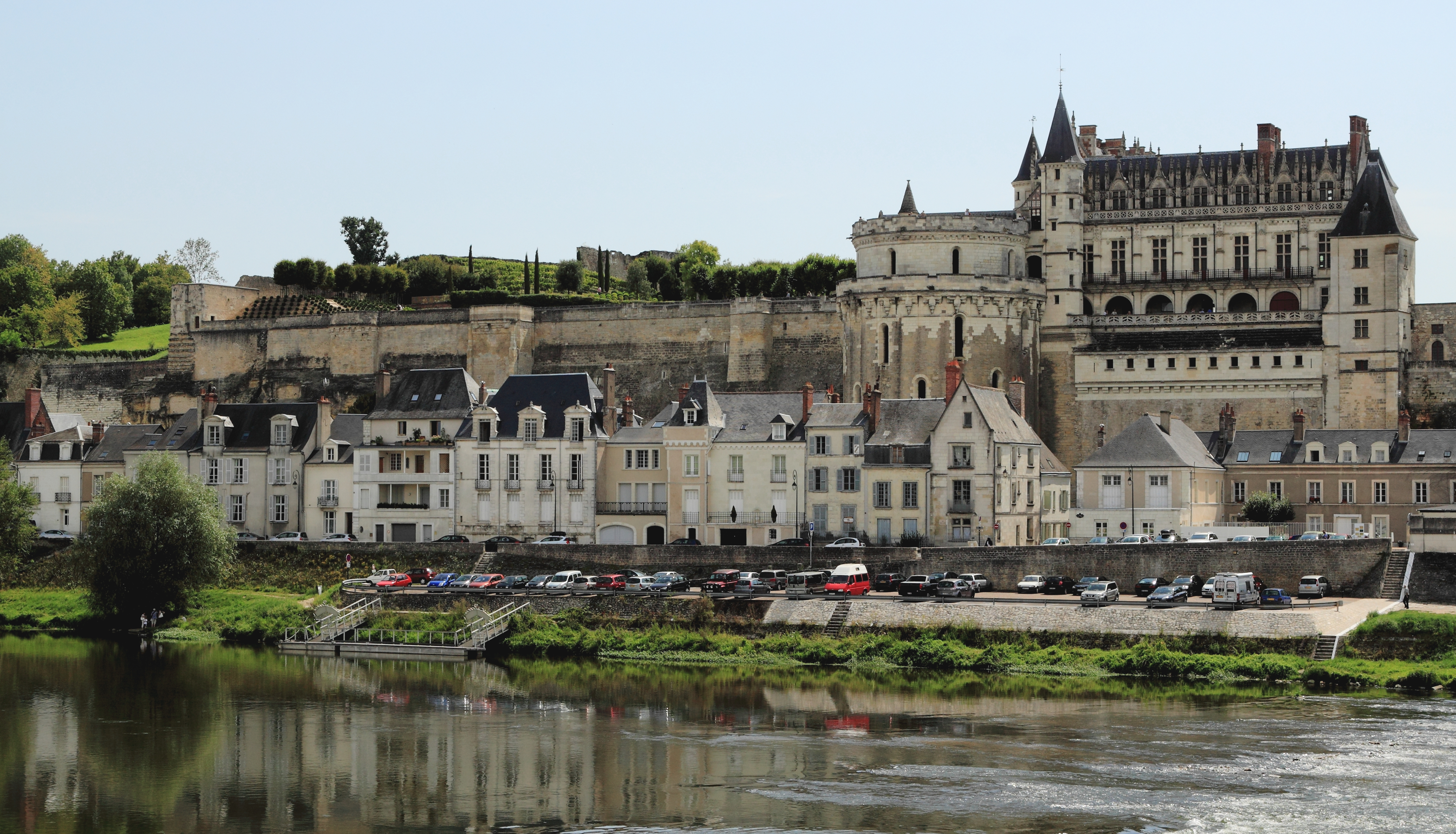 Château d'Amboise from below